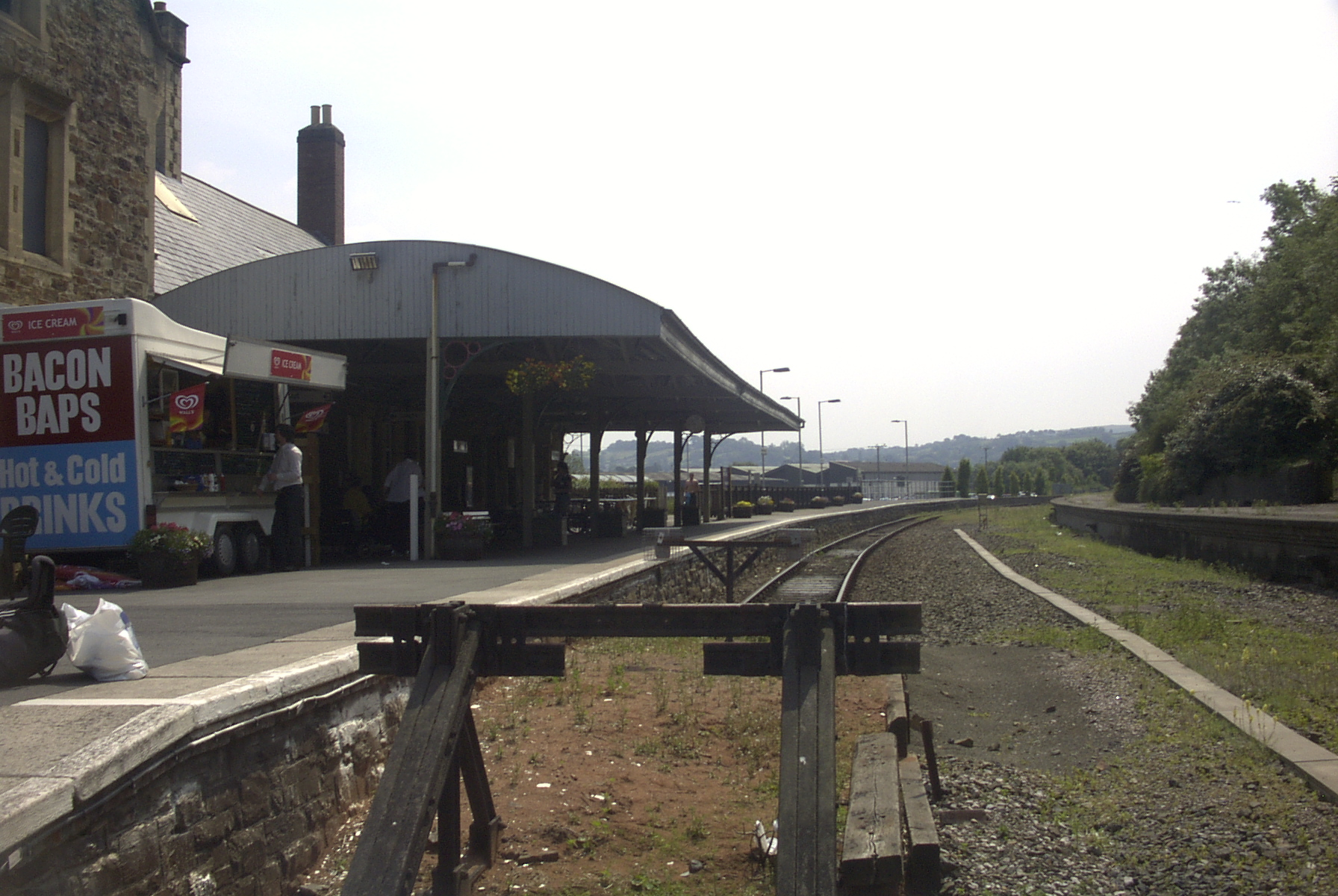 Barnstaple station. Taken from ground beyond the edge of the track.